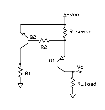 Electronic circuit schematic for a current limiter or current source. An issue with the circuit here:Current_limiting_using_bjt.gif , is that Q1 will not be saturated unless its base is biased about 0.5 volts above Vcc. This circuit operates more efficiently from a single (Vcc) supply. In this circuit, R1 allows Q1 to turn on and pass voltage and current to the load. When the current through R_sense exceeds the design limit, Q2 begins to turn on, which in turn begins to turn off Q1, thus limiting the load current. The optional component R2 protects Q2 in the event of a short-circuited load. When Vcc is at least a few volts, a MOSFET can be used for Q1 for lower dropout-voltage. Due to its simplicity, this circuit is sometimes used as a current source for high-power LEDs.